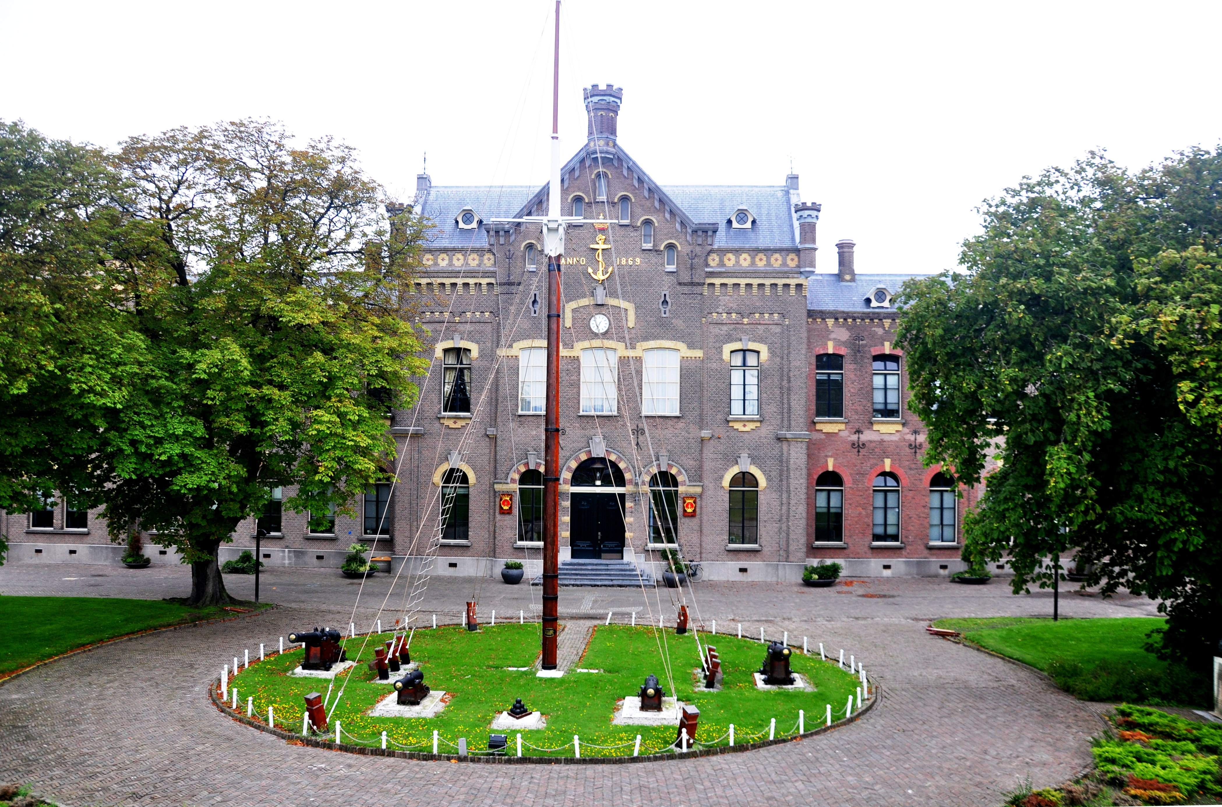 Royal Netherlands Naval College